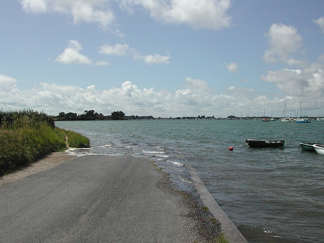 Shore Road at high tide Shore Road on the south side of the Bosham Quay inlet at high tide. The tidal road is impassable for about an hour either side of the highest tides, but it is always possible to walk round the entire length of Shore Road from Bosham Quay to Hone Lane by following, where necessary, the footpath, which is either set slightly above the carriageway (seen here starting off to the left of the photo) or, in one case, heading behind the houses which front the road.